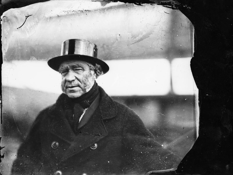 Photograph : Ice Master Donald Manson, of the converted screw sloop Phoenix